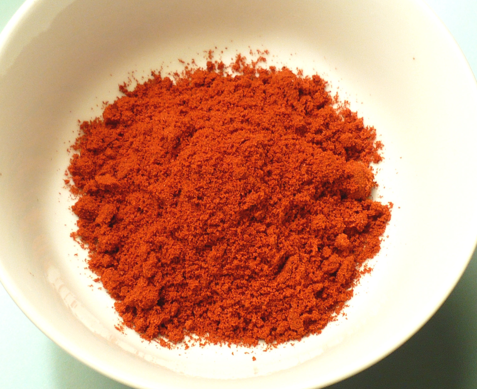 A small bowl of hot smoked Spanish paprika (pimentón de la vera, picante). Photo taken in Kent, Ohio with a Panasonic Lumix digital camera (model DMC-LS75). Paprika purchased from The Spice House, United States.[1] The smoky flavor is created through the smoking of red chili peppers over an oak fire for several weeks.